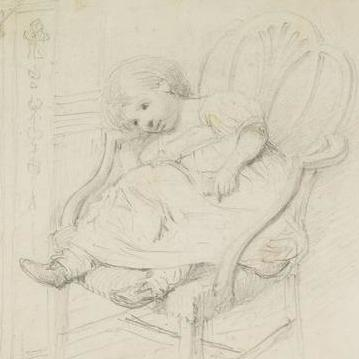 Anne Gibson Nasmyth as a child by Alexander Nasmyth c. 1800 Accession number: D 3727/22